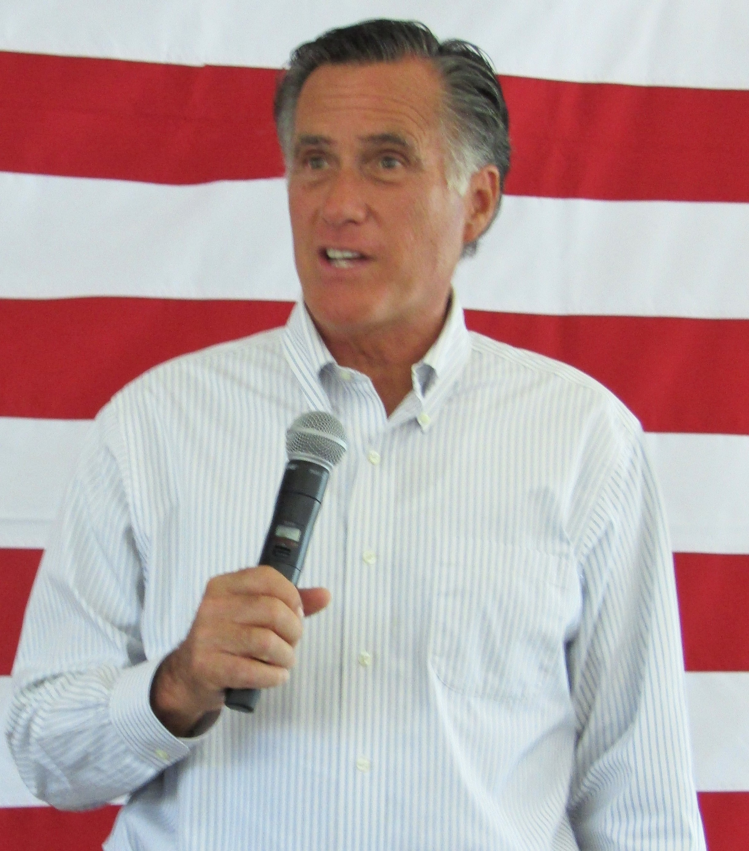 Mitt Romney at a rally in Palisade Park in Orem, Utah.